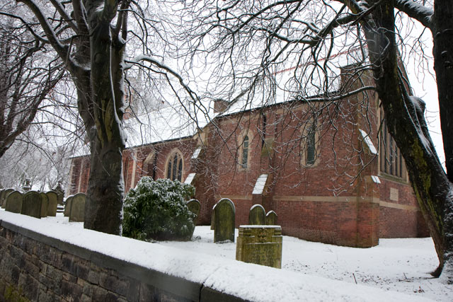 St Paul's parish church, Farington Moss, Lancashire, seen from the south in snow